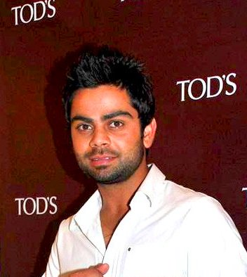 virat kohli